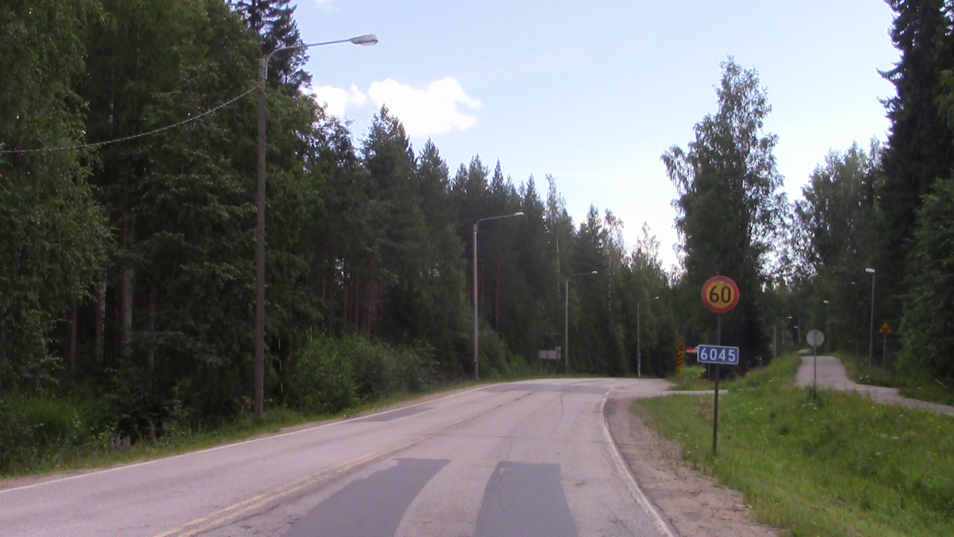 Connecting road 6045 at Kaleton village in Keuruu, Finland. The road runs from Pohjoisjärvi to Kaleton.